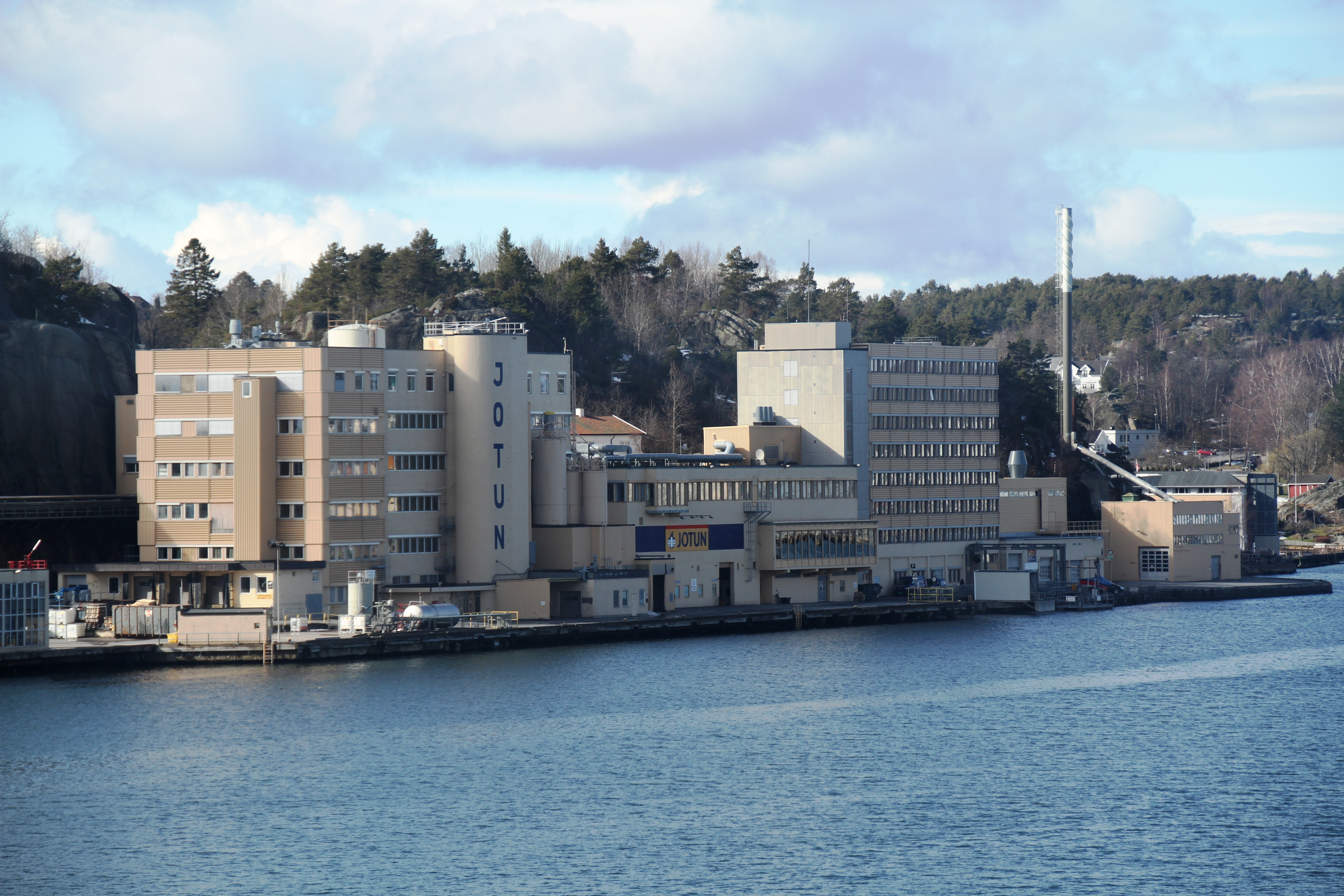 Jotun Paint factory (Jotun fabrikker) in Sandefjord, Norway